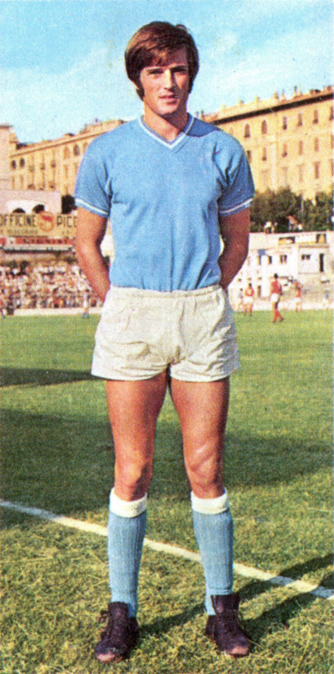 Perugia (Italy), Santa Giuliana Stadium, August 23, 1970. S.S.C. Napoli's midfielder Giovanni Improta during the victorius away friendly match versus A.C. Perugia (0-2).